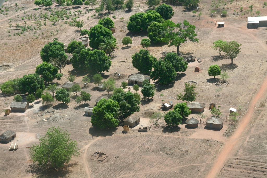 Green lands and villages in CAR. The pictures were taken from a plane flying from Bangui to Paoua. Credits: Brice Blondel for HDPTCAR